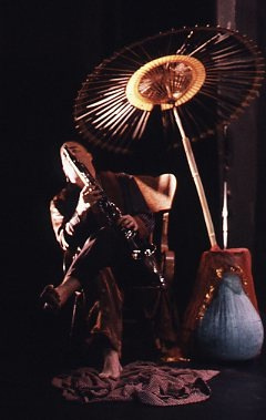 Norman Rutherford in mini-set by Lauren Elder.